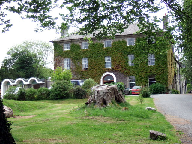 Castell Malgwyn There is historical evidence of an important dwelling here as far back as C14, or even before, but the owner of a nearby tinplate works, Sir Benjamin Hammet, acquired the old estate in 1792 and built this three storey Georgian style house and the nearby mid 19th century stable block and service wing. The mansion is now a hotel and the stable buildings and service buildings converted to tourist accommodation. A small park, entered through mid 19th century gates with flanking lodges of similar date, lies immediately to the east of the house, and wooded pleasure grounds flank the Afon Teifi to the north and west.